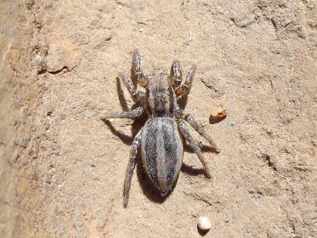 Phlegra fasciata. Found in Riga town, Latvia